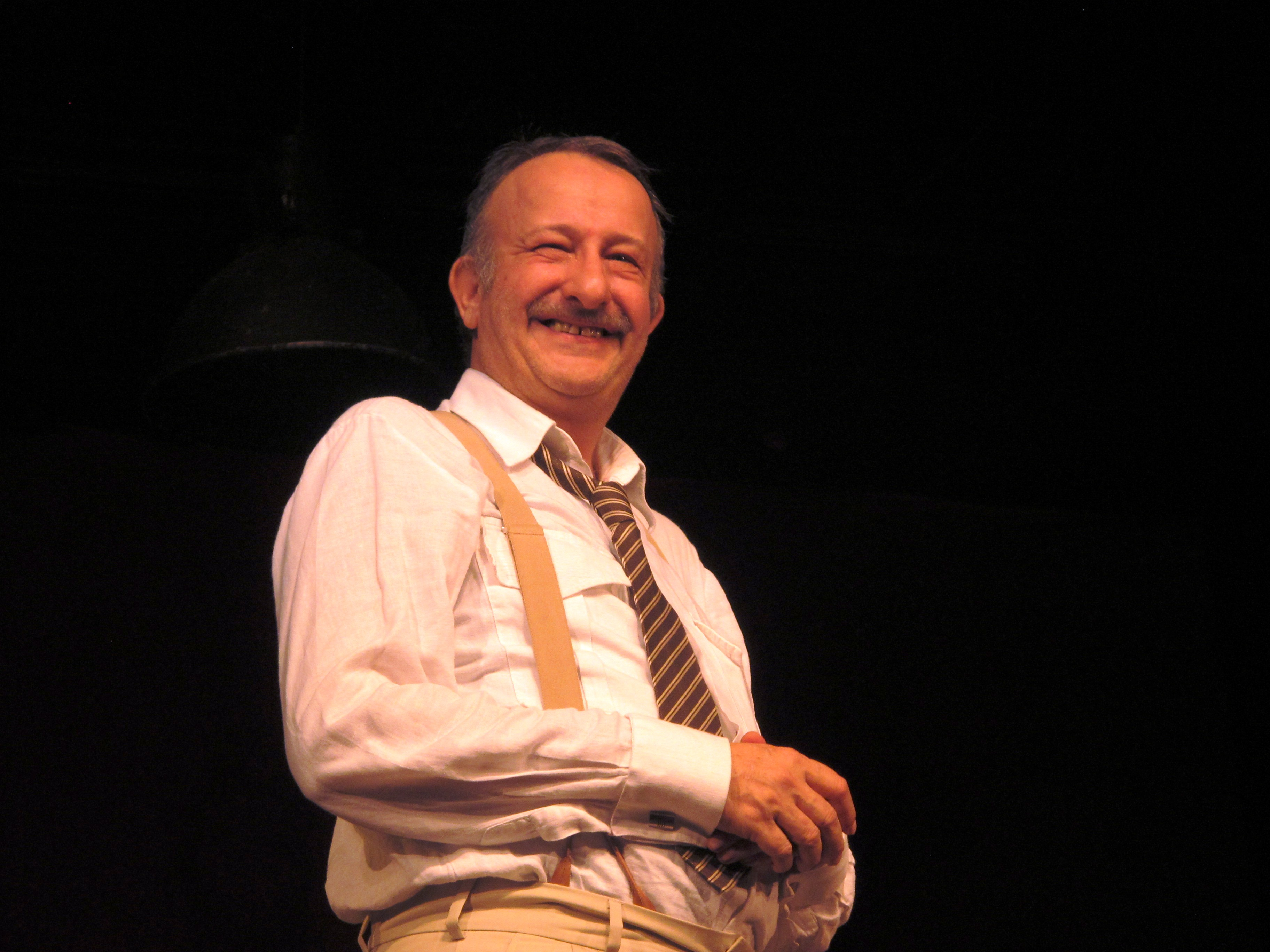 Turkish actor Naşit Özcan (2013)